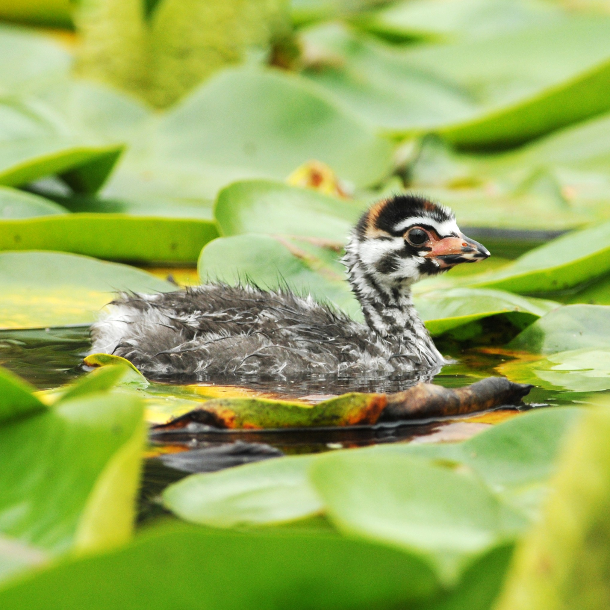 A Pied-billed Grebe chick swiming on Lake Washington, King County, Washington, USA.